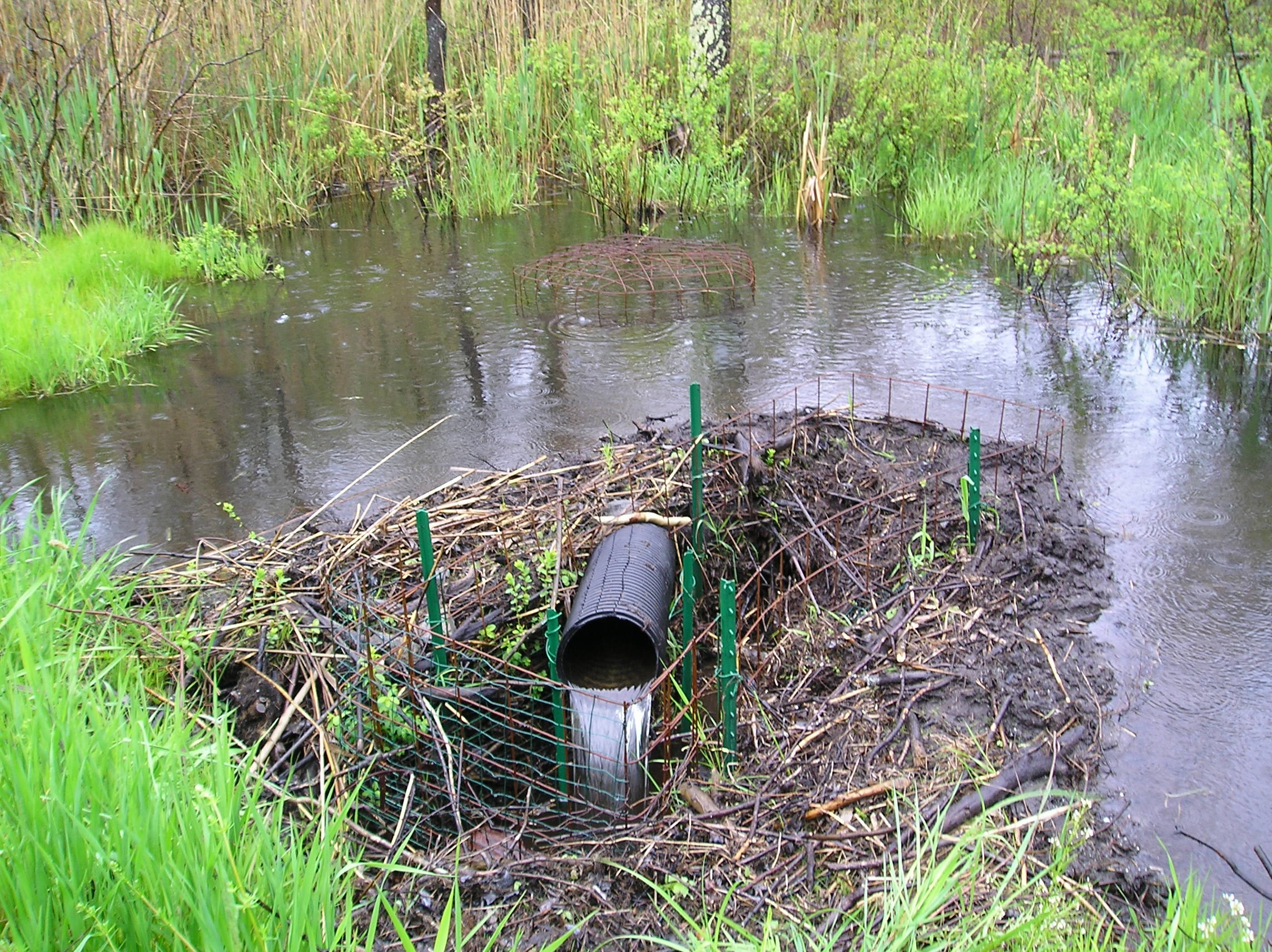 Culvert fence and pond leveler pipe after beaver rebuild dam